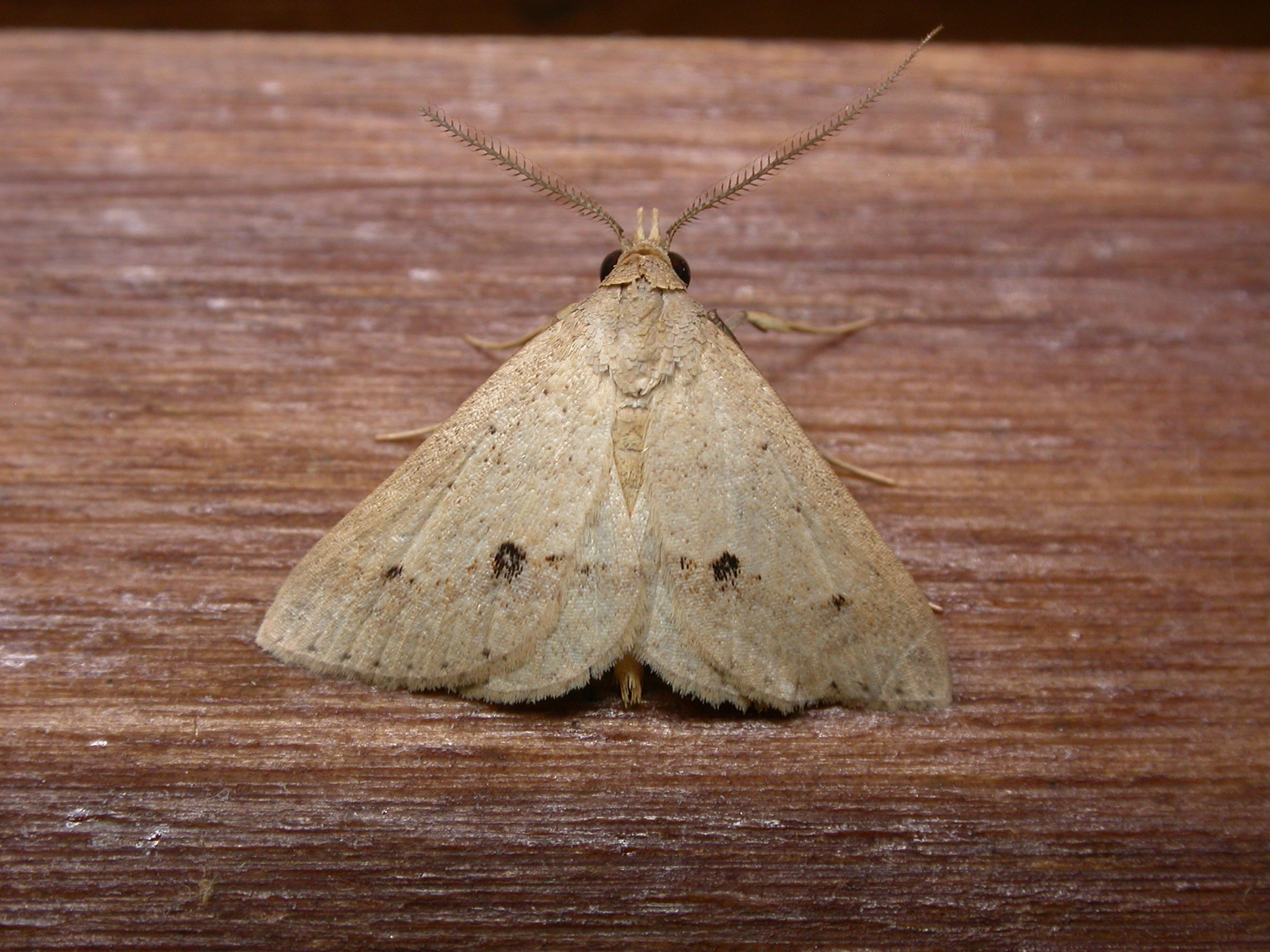 Gesonia obeditalis Walker, 1859, Mission Beach, QLD, 19 December 2011